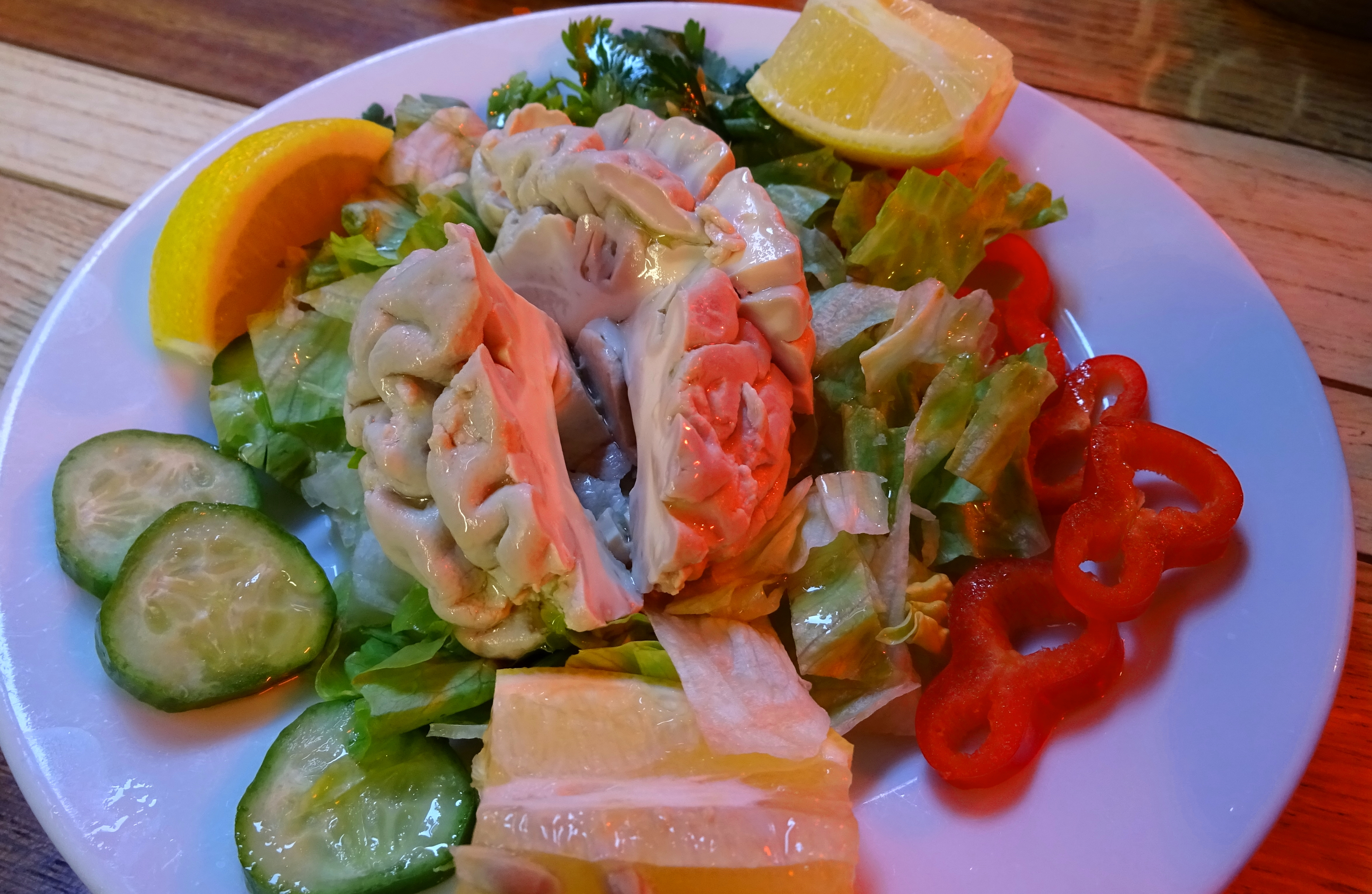 Cooked lamb's brains with salad and lemon as an appetizer, meze, at a restaurant in Beyoğlu in Istanbul.